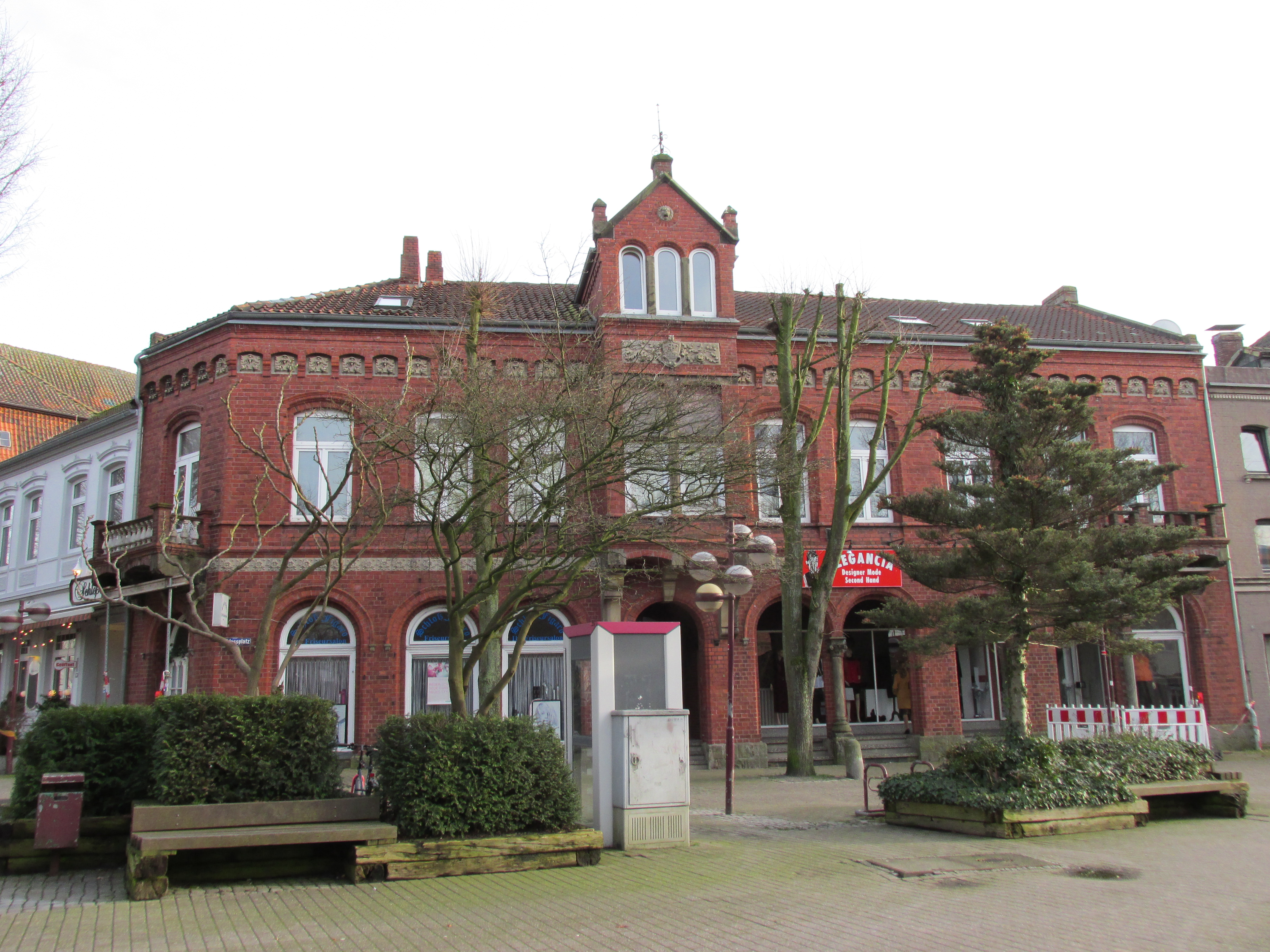 Schloßplatz 9, Varel, Germany check usage Address Schloßplatz 9 26316 Varel Germany Date18 January 2014SourceOwn work. (→ weitere 1,406 Bilder von mir in der Galerie)AuthorStefan FlöperPermission (Reusing this file) cc-by-sa-3.0, gfdl 1.2+ Attribution (required by the license)Stefan Flöper / Wikimedia Commons / CC-BY-SA-3.0 & GDFL 1.2+ Licensing[edit]